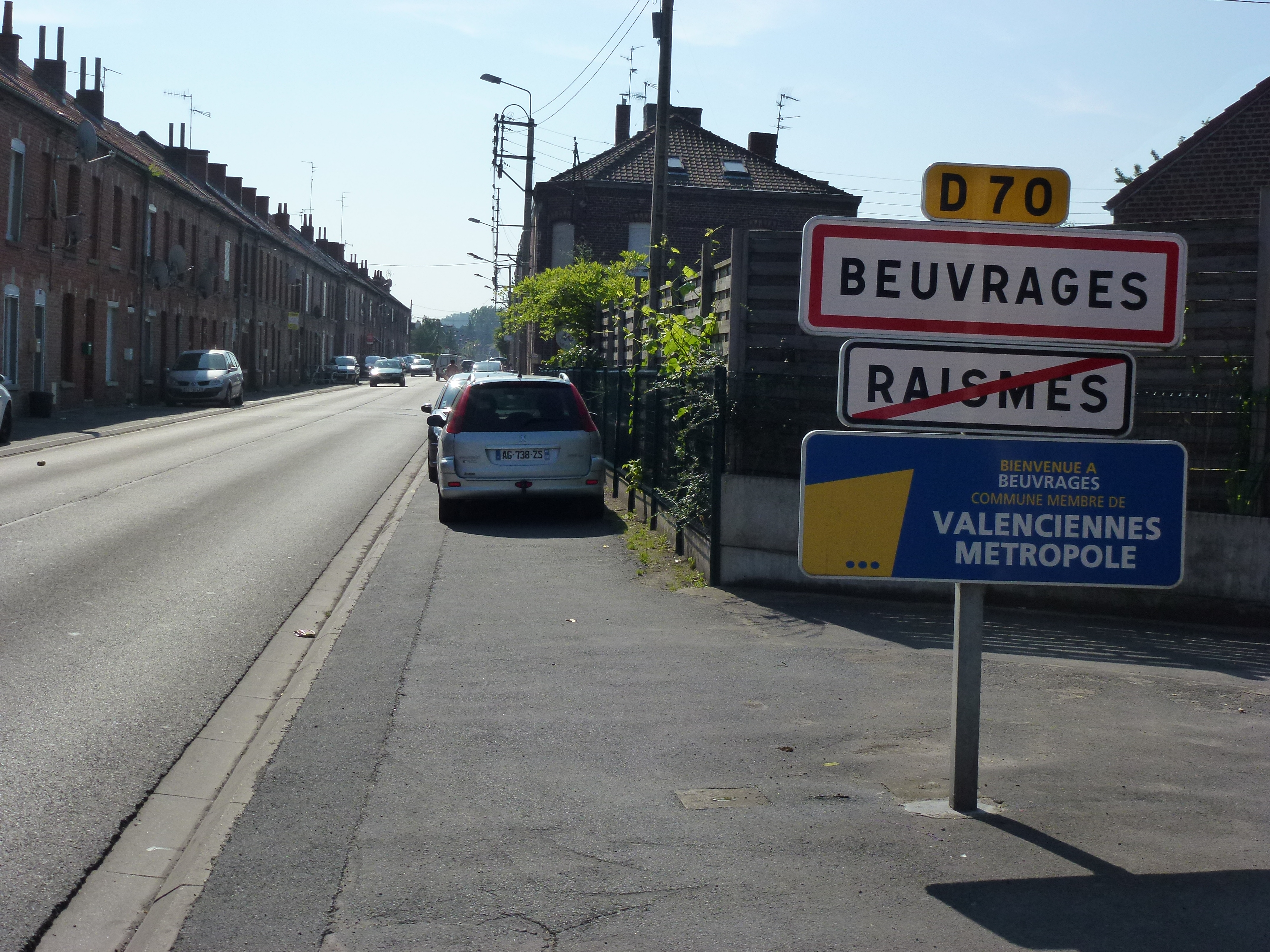 Beuvrages (Nord, Fr) city limit sign